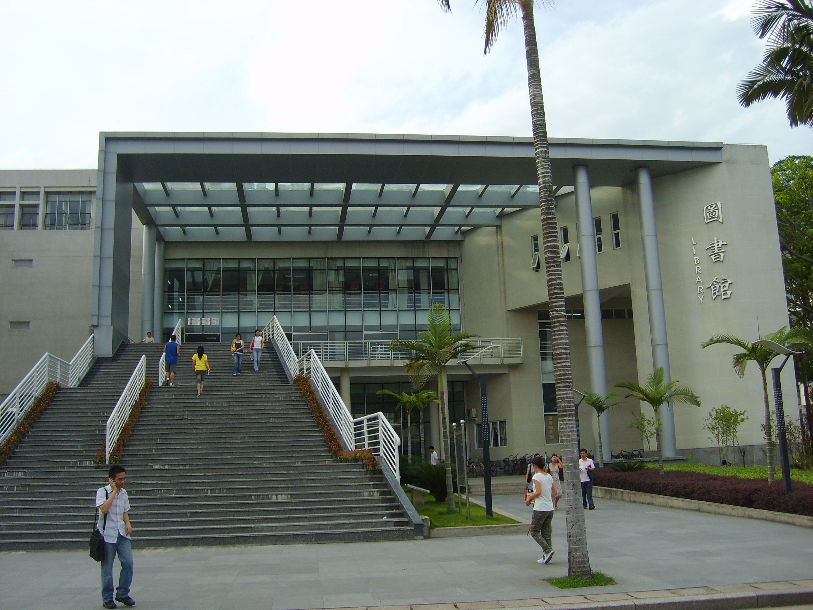 Li Changsheng Library, in Jinshan Campus, Fujian Agriculture and Forestry University